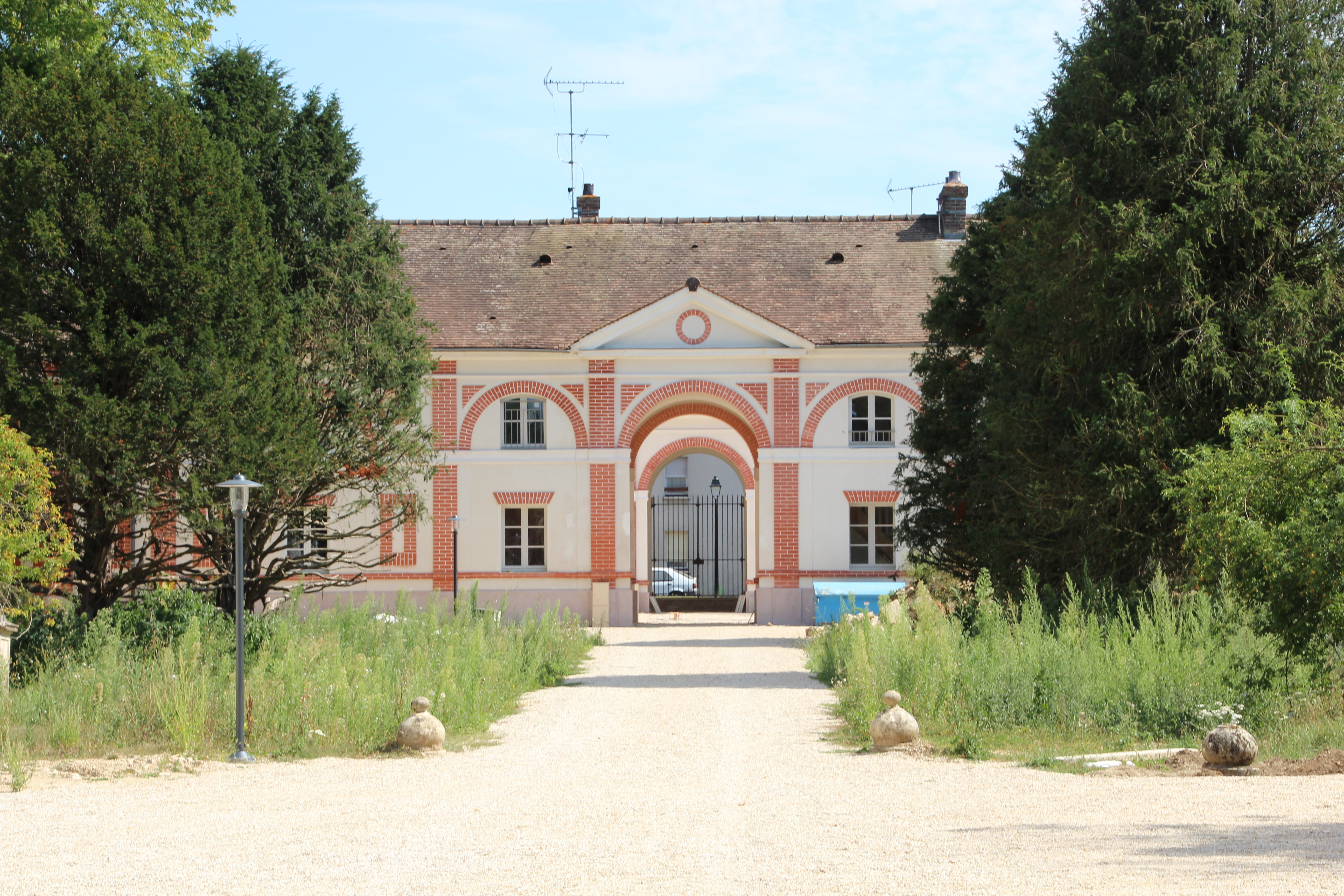 Morigny castle in Morigny-Champigny, France